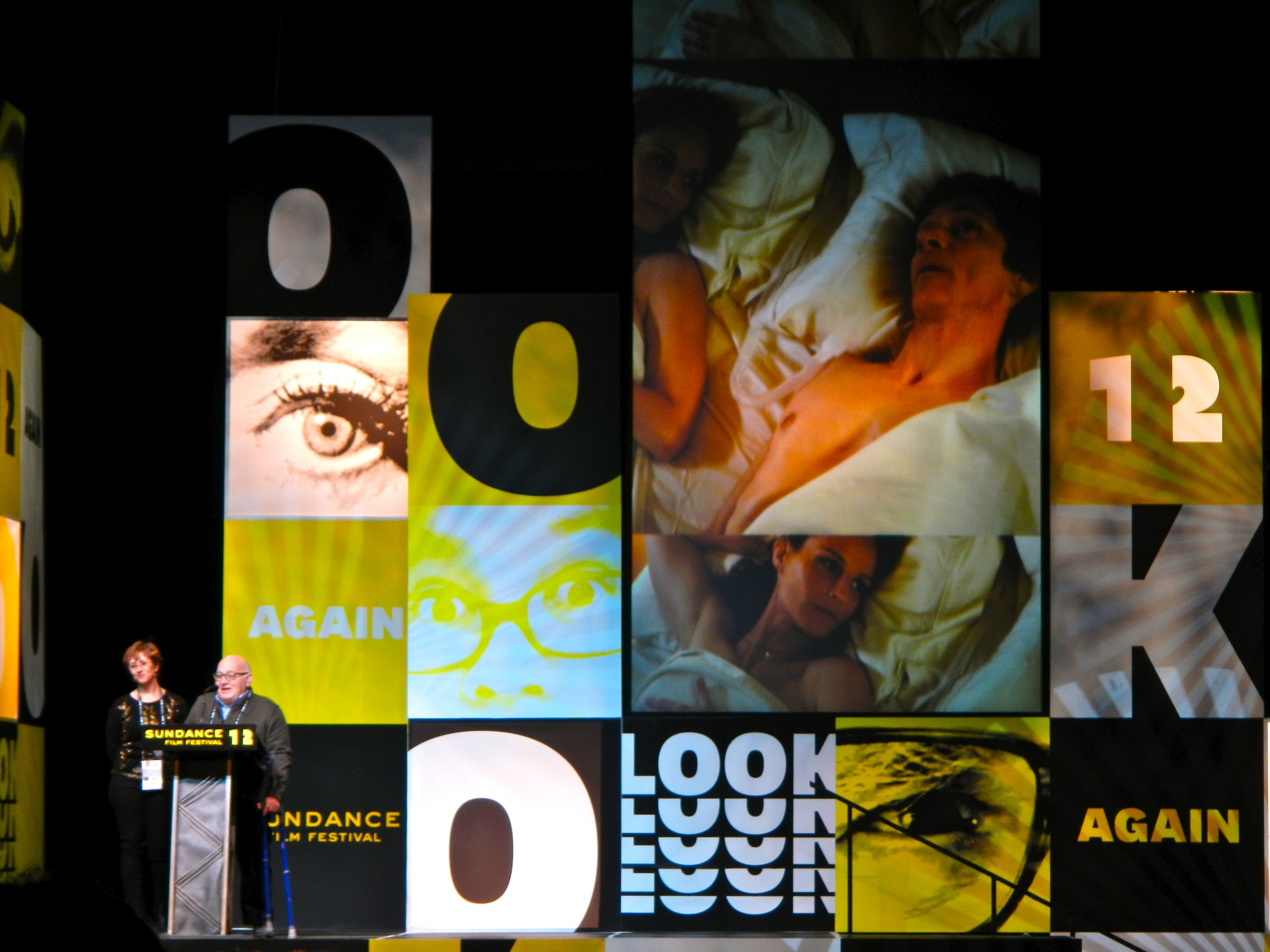 The Surrogate wins the audience award for U.S. dramatic film and the festival’s only acting award for its ensemble cast at Sundance